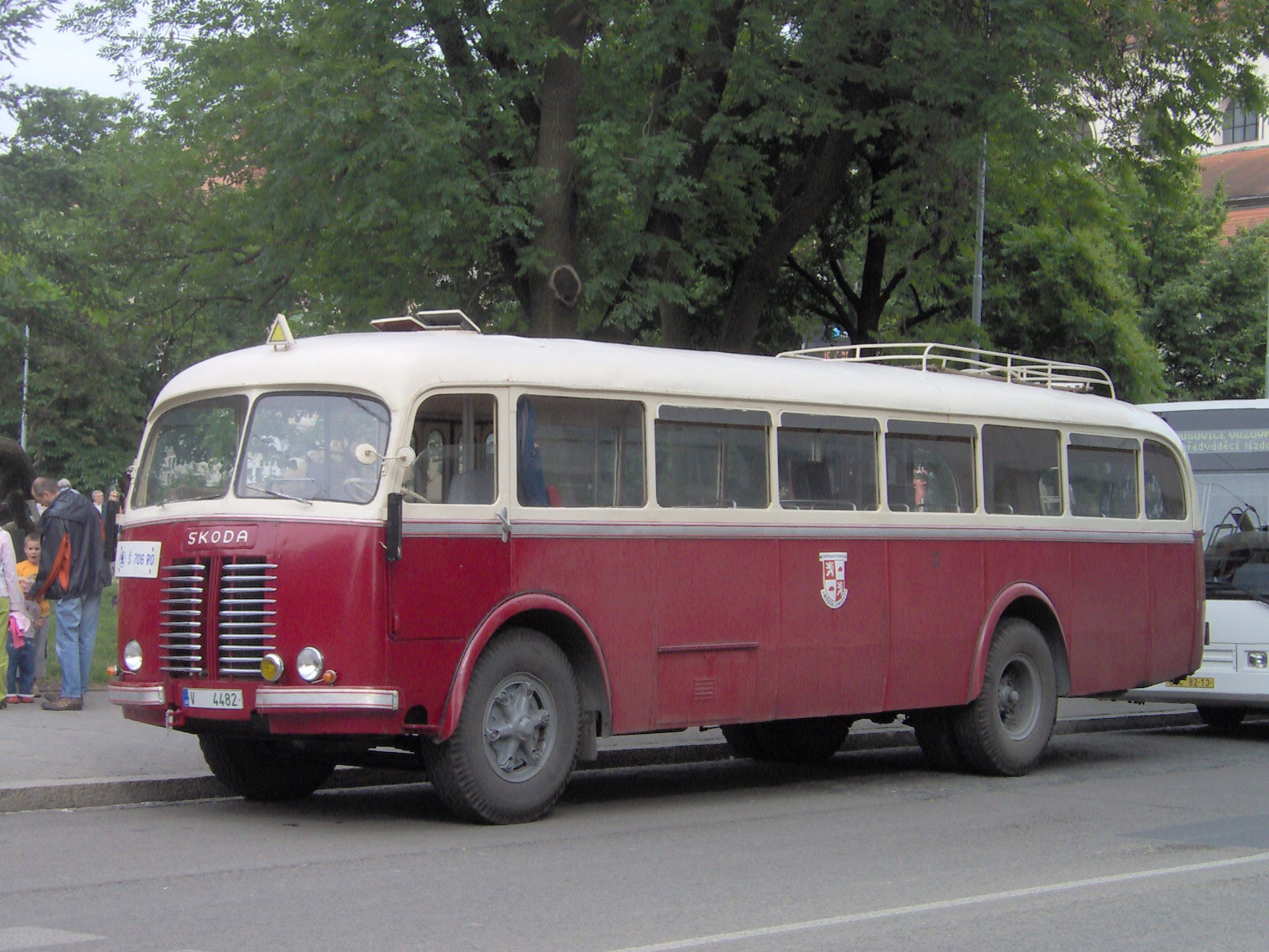 Historical Škoda 706 RO bus, 140 years of public transport in Brno, Czech Republic